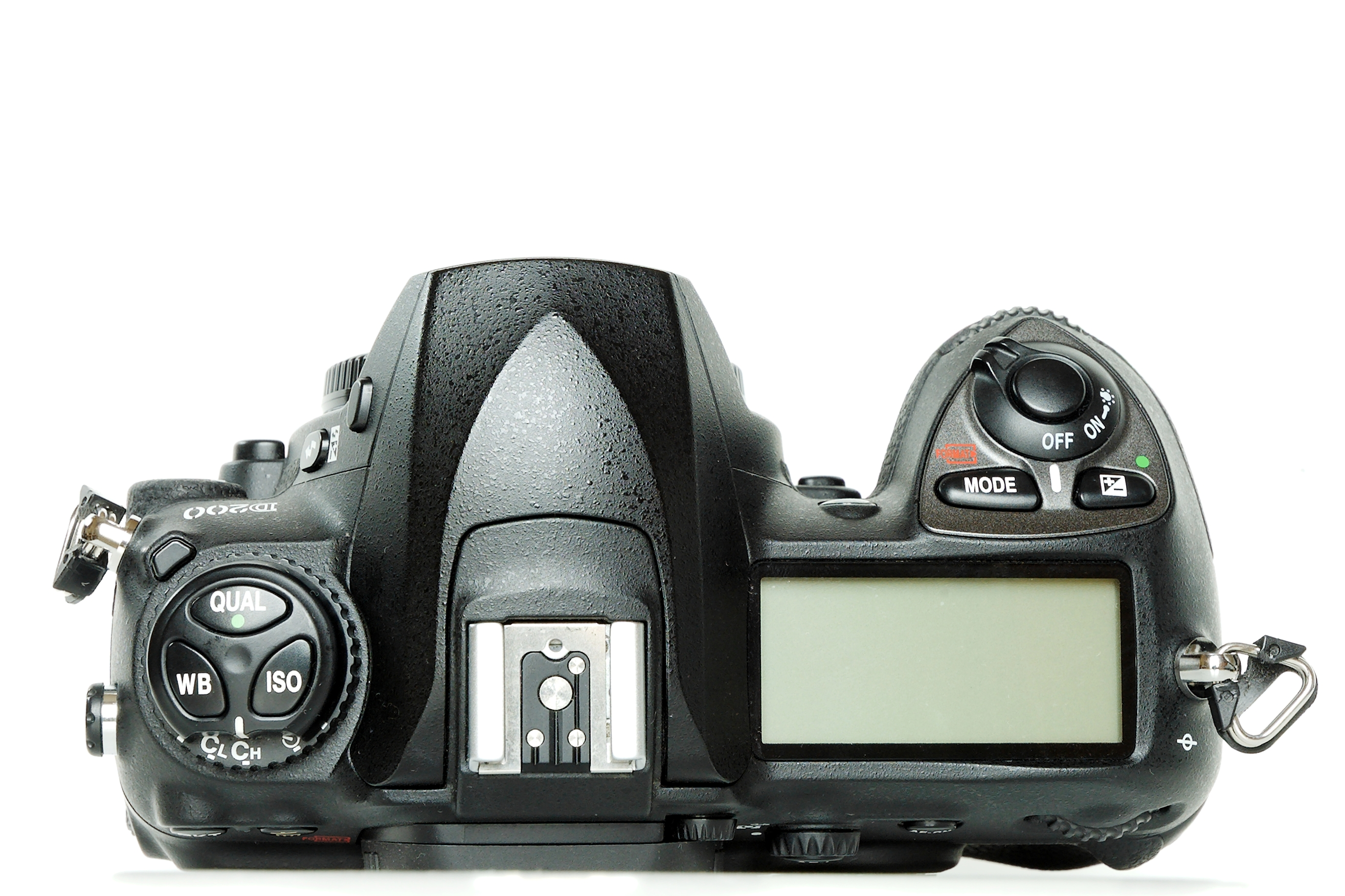 Top of the Nikon D200 dSLR.